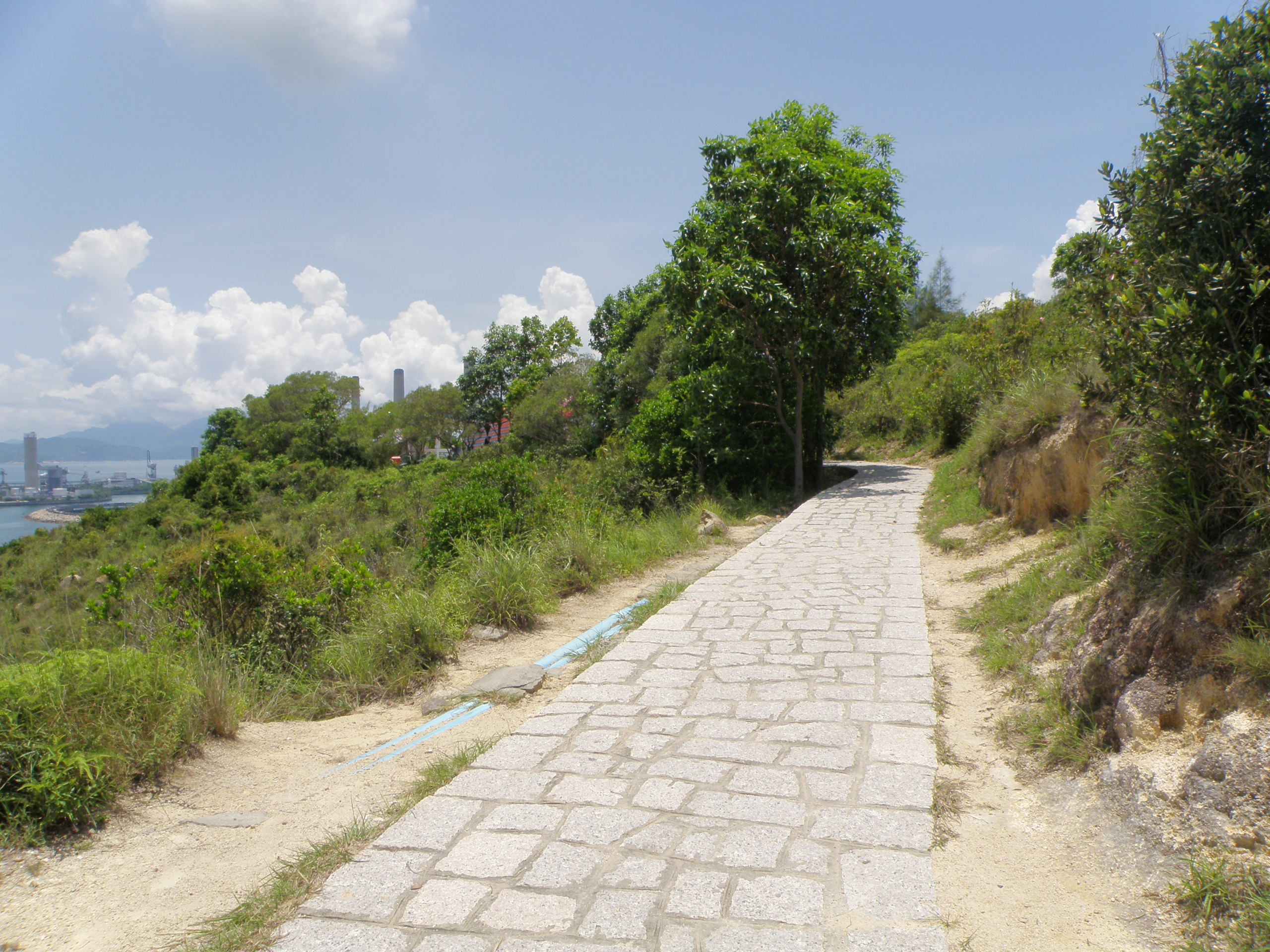 Family Trail in Lamma Island, Hong Kong.